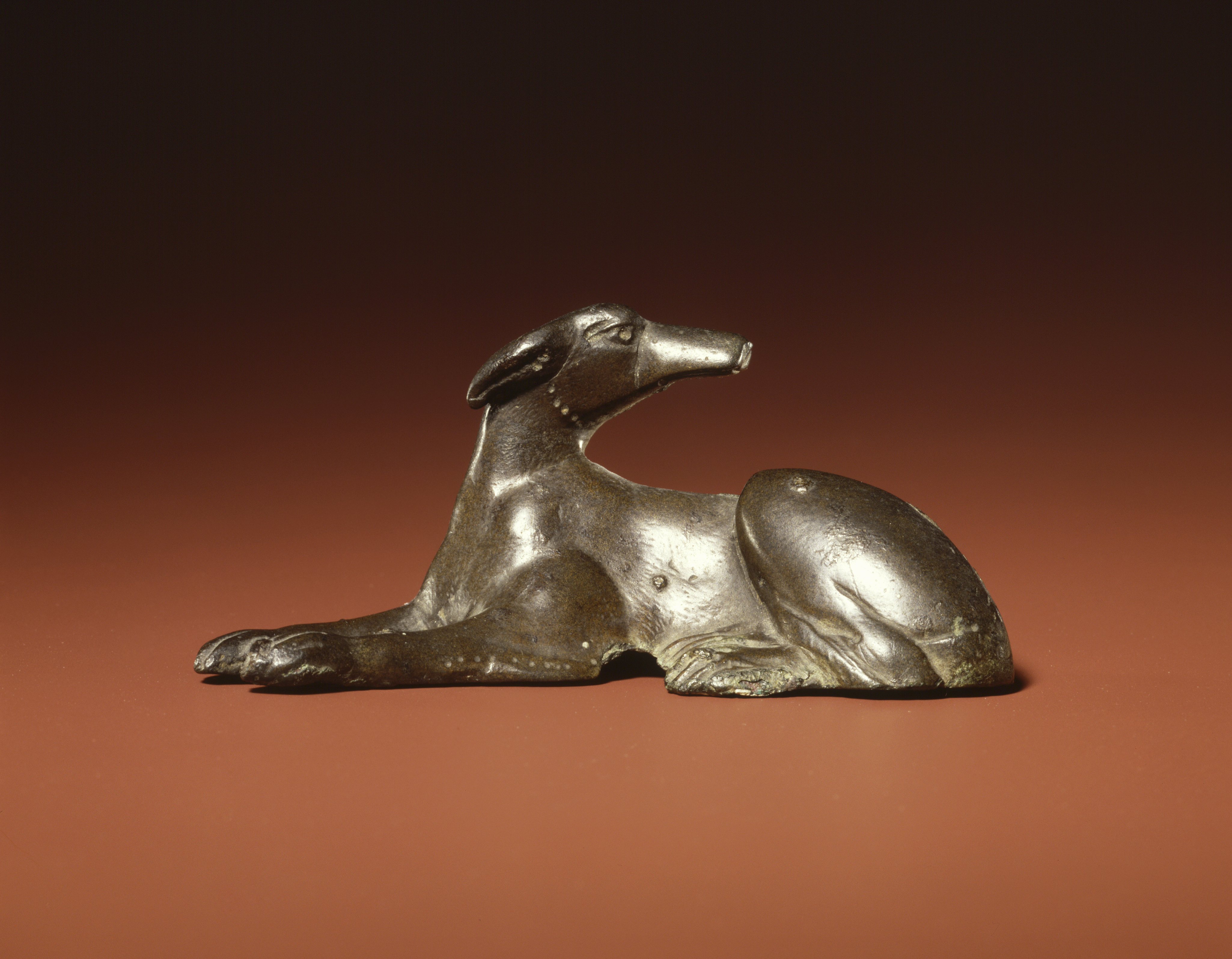 Bronze figure probably of a Celtic greyhound, Roman